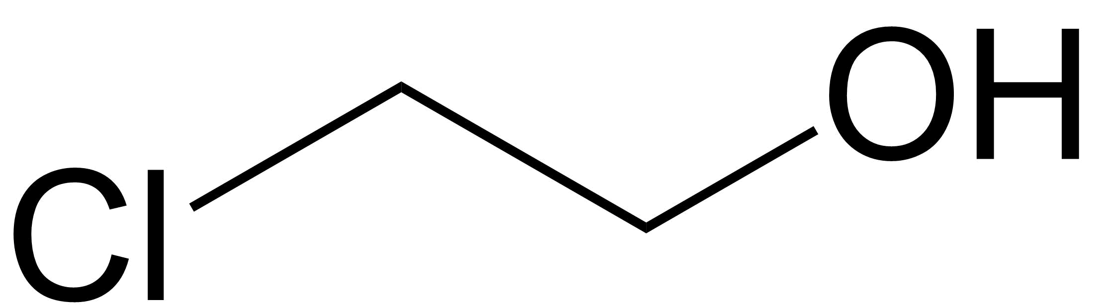 2-Chloroethanol 2D molecular structure